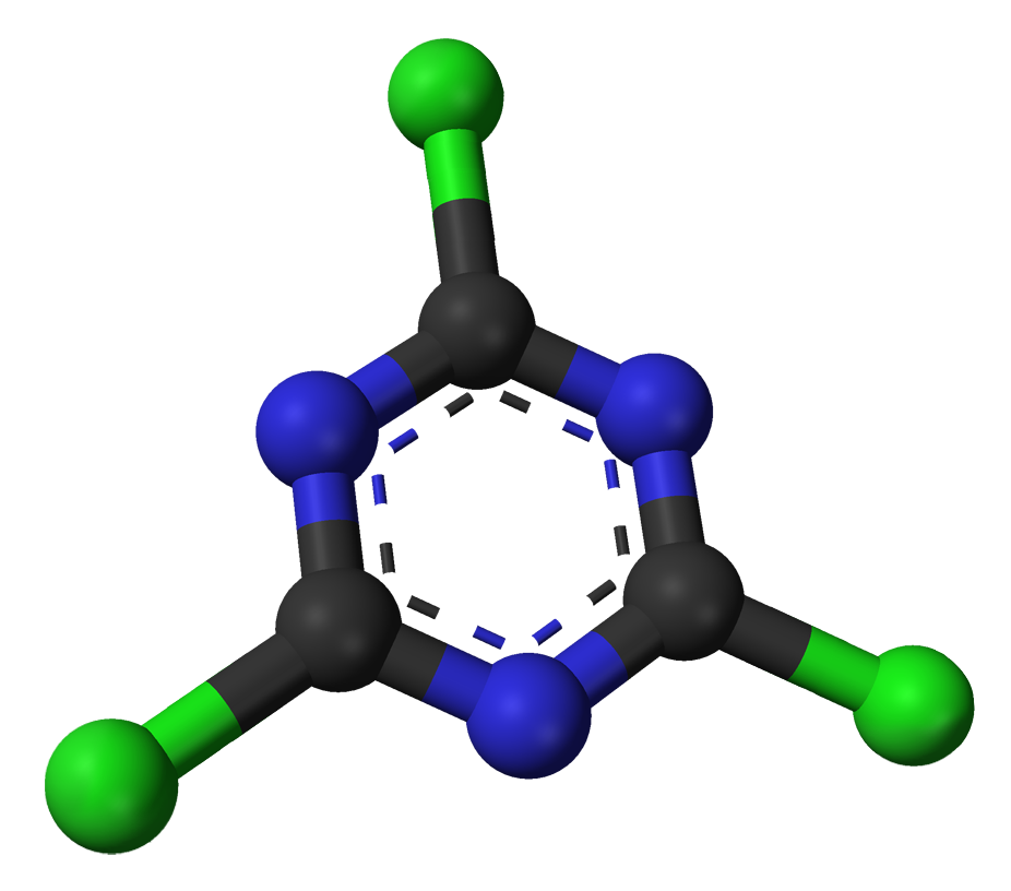 Ball and stick model of the cyanuric chloride molecule.